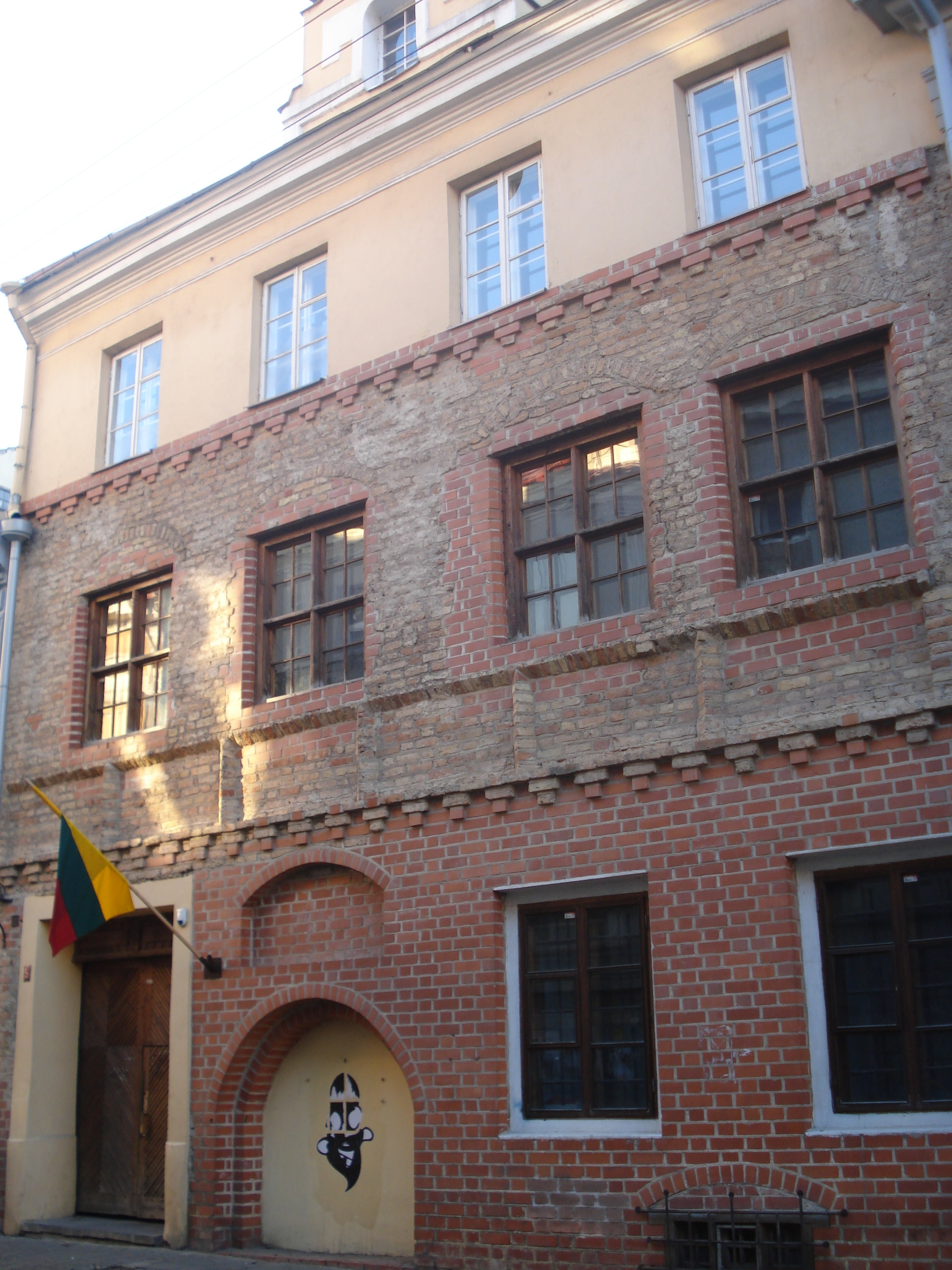 The house of drugstore. Švento Jono g. 5